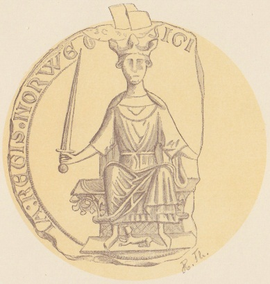 Seal (front) of King Haakon IV Haakonsson of Norway, dated 1247/48, Oslo. Text: "[✠] SIGI[llvm Haconis magni (?) dei grac]IA : REGIS : NORWE/G[ie]". Size: 93 mm.